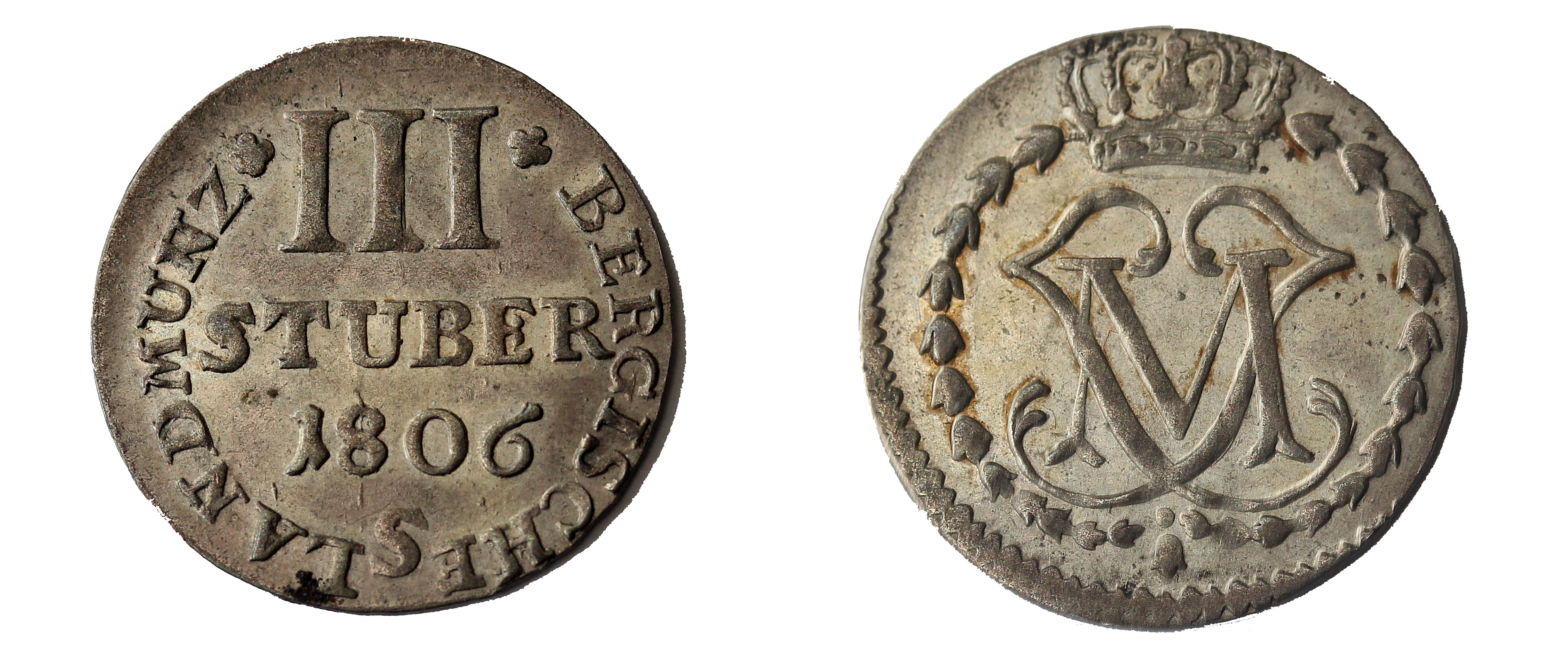 3 Stüber. Duchy of Berg (1806). AKS 5. Schön 106.2